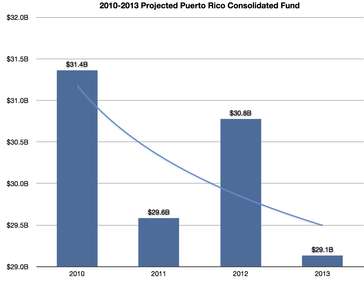 Puerto Rico Consolidated Fund for the 2010–2013 fiscal period